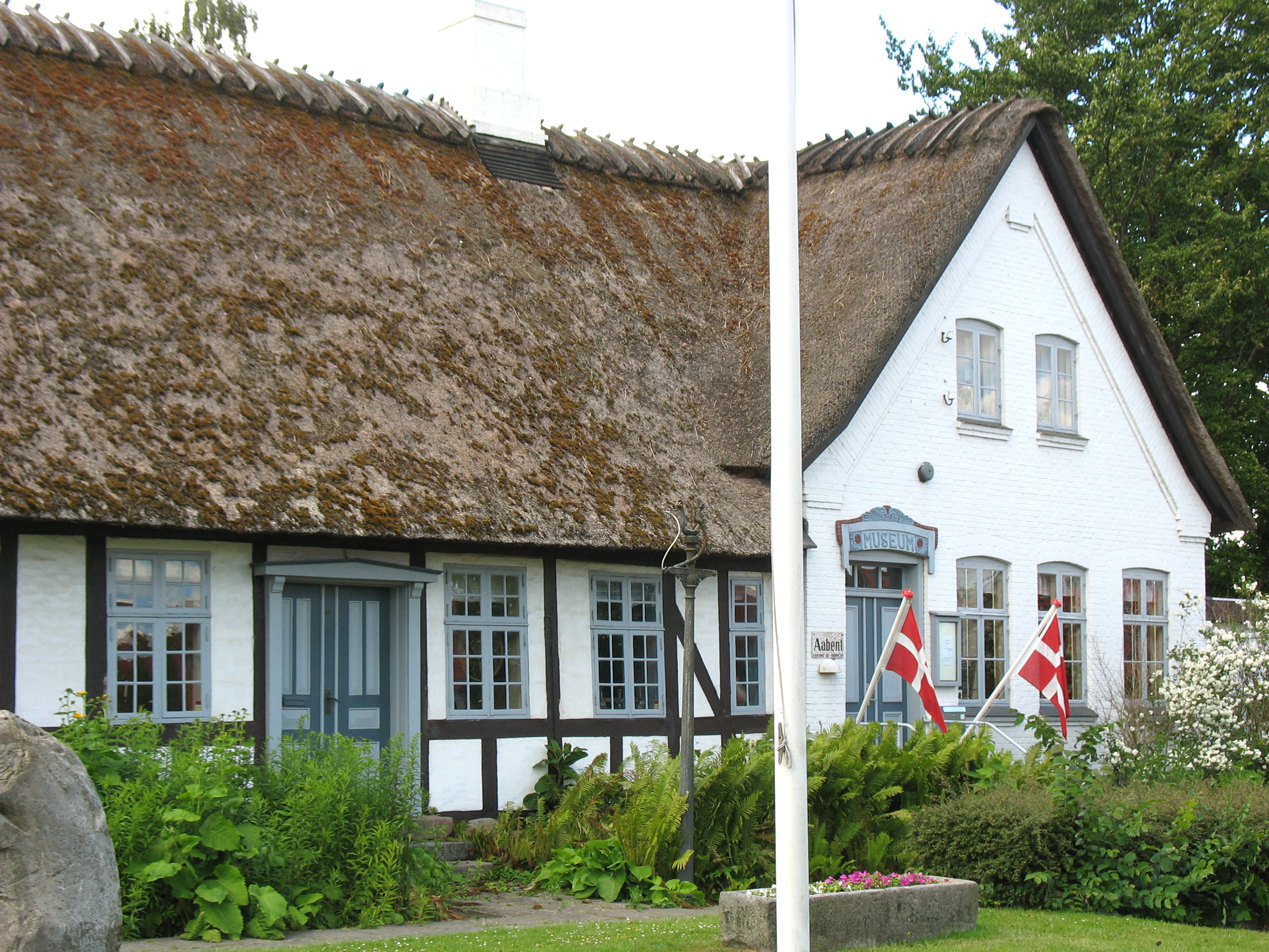 Ringe Museum in the Danish town "Ringe" (on the island Funen)